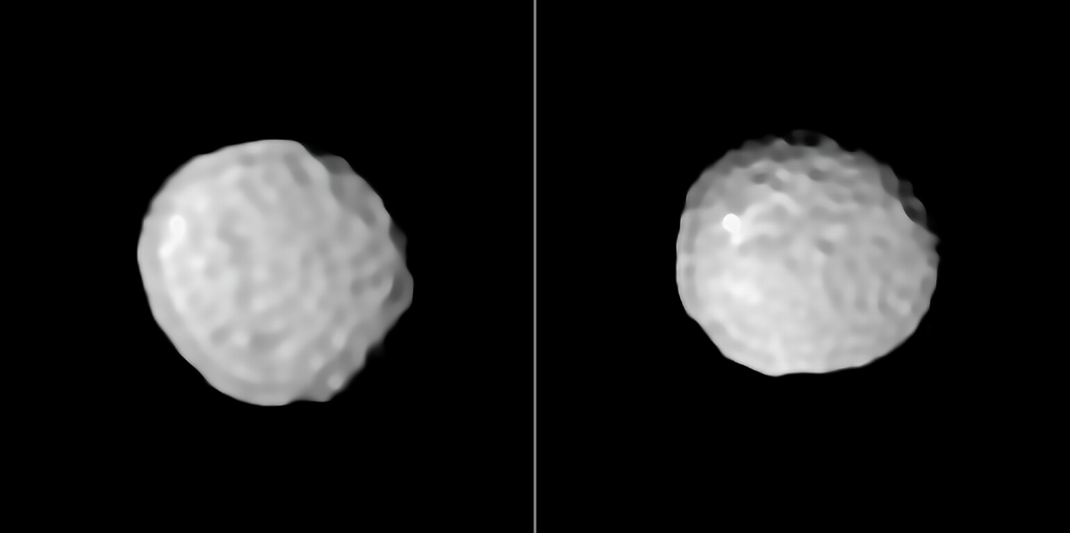 A new study led by Pierre Vernazza (Laboratoire d’Astrophysique de Marseille, France) conducted using ESO facilities has observed the asteroid Pallas for the first time at extremely high angular resolution. The asteroid could be successfully observed in such great detail thanks to the Adaptive-Optics (AO)-fed SPHERE imager on the Very Large Telescope (VLT). German astronomer Heinrich Wilhelm Matthäus Olbers first discovered Pallas on 28 March 1802. Named for the Greek goddess Pallas Athene, the asteroid — along with many other asteroids discovered in the 19th century — was initially classified as a planet. As time passed and technology improved, Pallas was later reclassified as an asteroid. Today it is famous for being the third-largest asteroid in the Solar System, with an average diameter of 512 km. Although Pallas is the largest known asteroid in the Solar System after Ceres and Vesta, it is the only one of these large asteroids that has not been visited by a spacecraft. This is due to its orbit, which has an unusually high inclination to the plane of the Earth’s orbit — which means it is particularly challenging to land a spacecraft on. These new images show that the surface of Pallas displays very interesting topographic features suggesting a violent collisional history. Numerous large craters are found in both hemispheres of Pallas, forming a surface resembling a golf ball. The two distinct large impact basins on its surface could also be related to a family-forming impact — a collision which caused an original object to fracture into several separate bodies. The bright spot which appears in the southern hemisphere of Pallas (right image) is also very reminiscent of the salt deposits on Ceres.